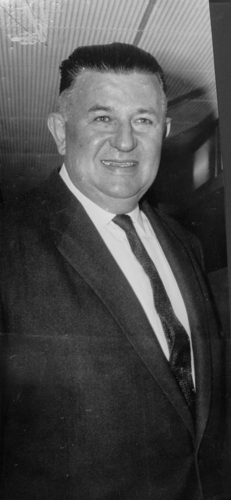 Police Commissioner Frank Eric Bischof in July 1962